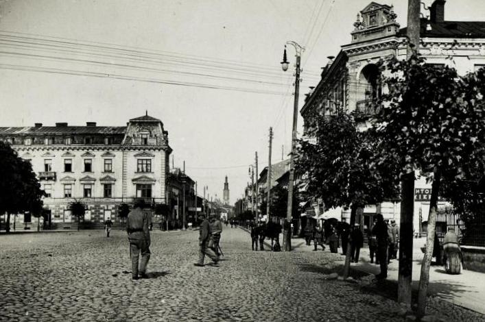 Square of Constitution of 3 May in Radom